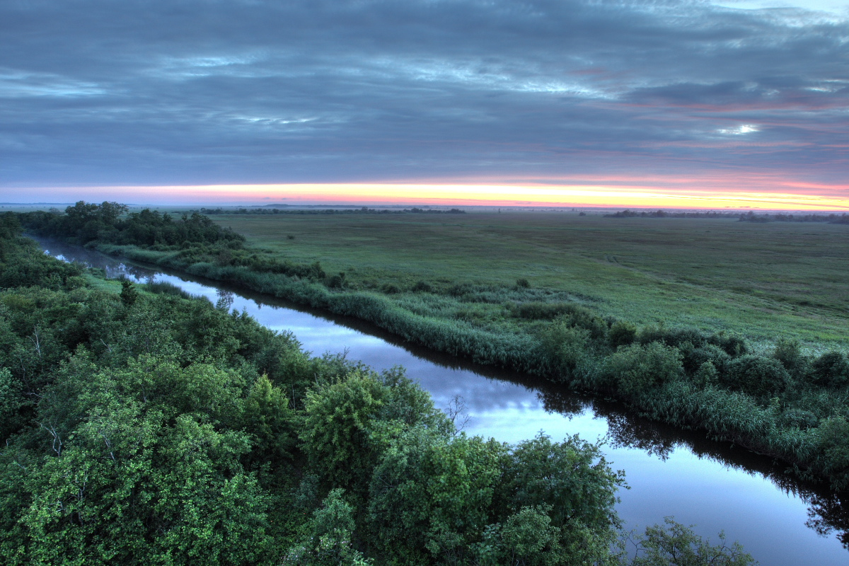 The Kasari river in Matsalu National Park, Lääne County, Estonia